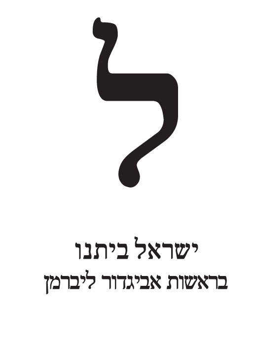 Yisrael Beitenu ballot Israel legislative election, 2009